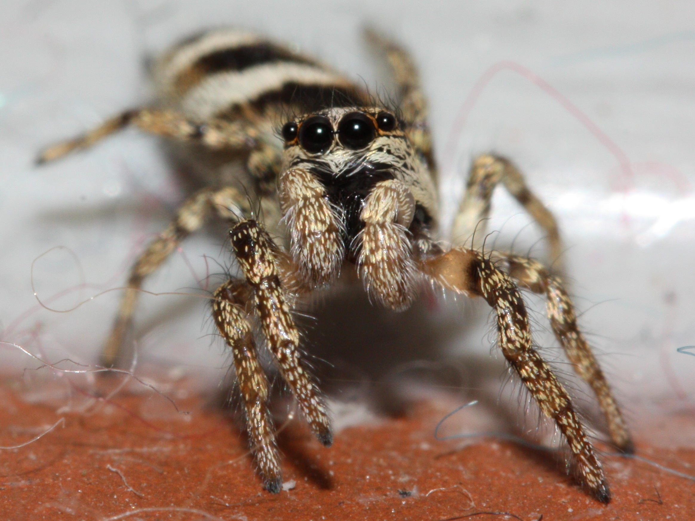 Salticus scenicus